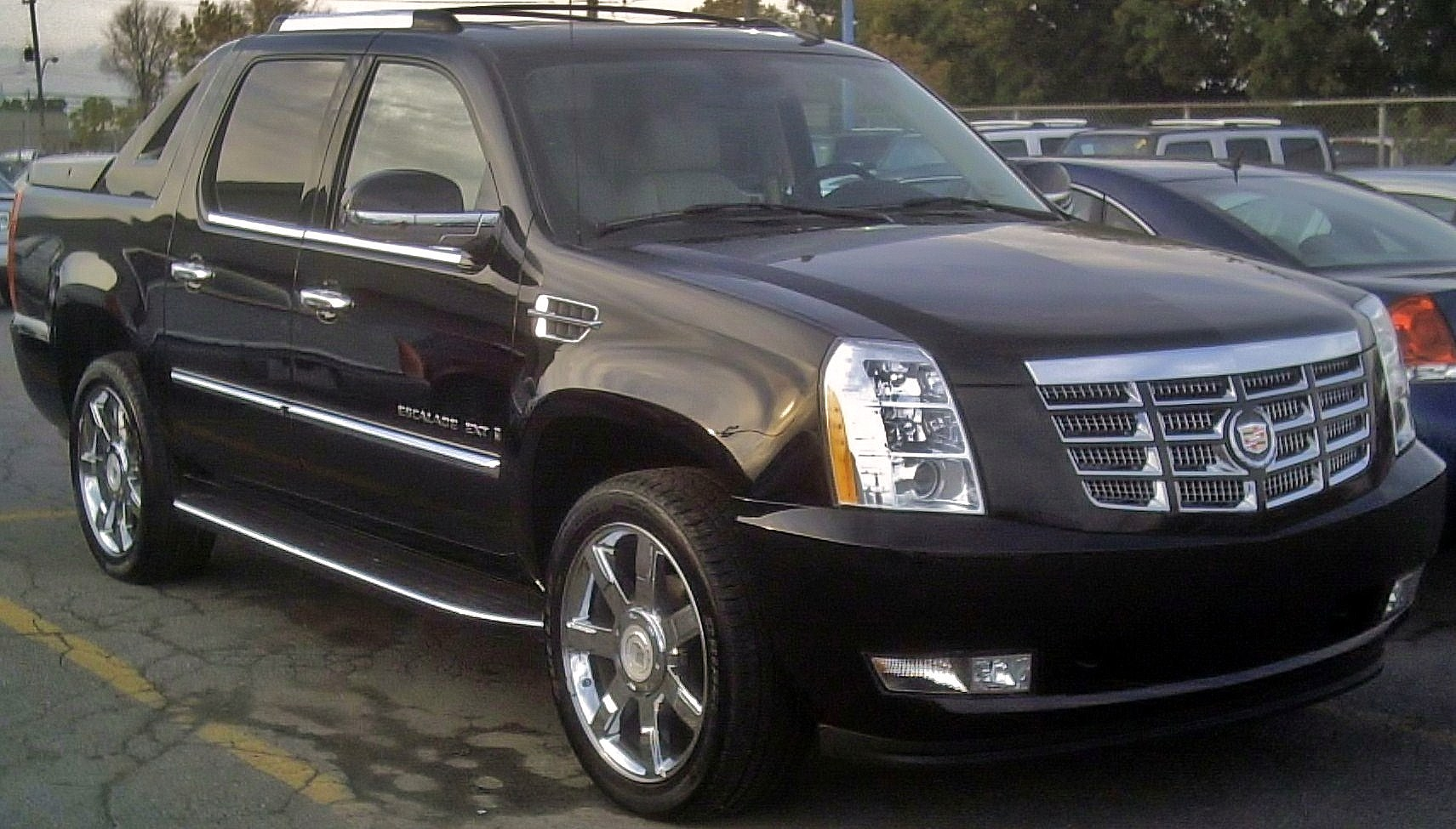 2007 Cadillac Escalade EXT photographed in Montreal, Quebec, Canada.